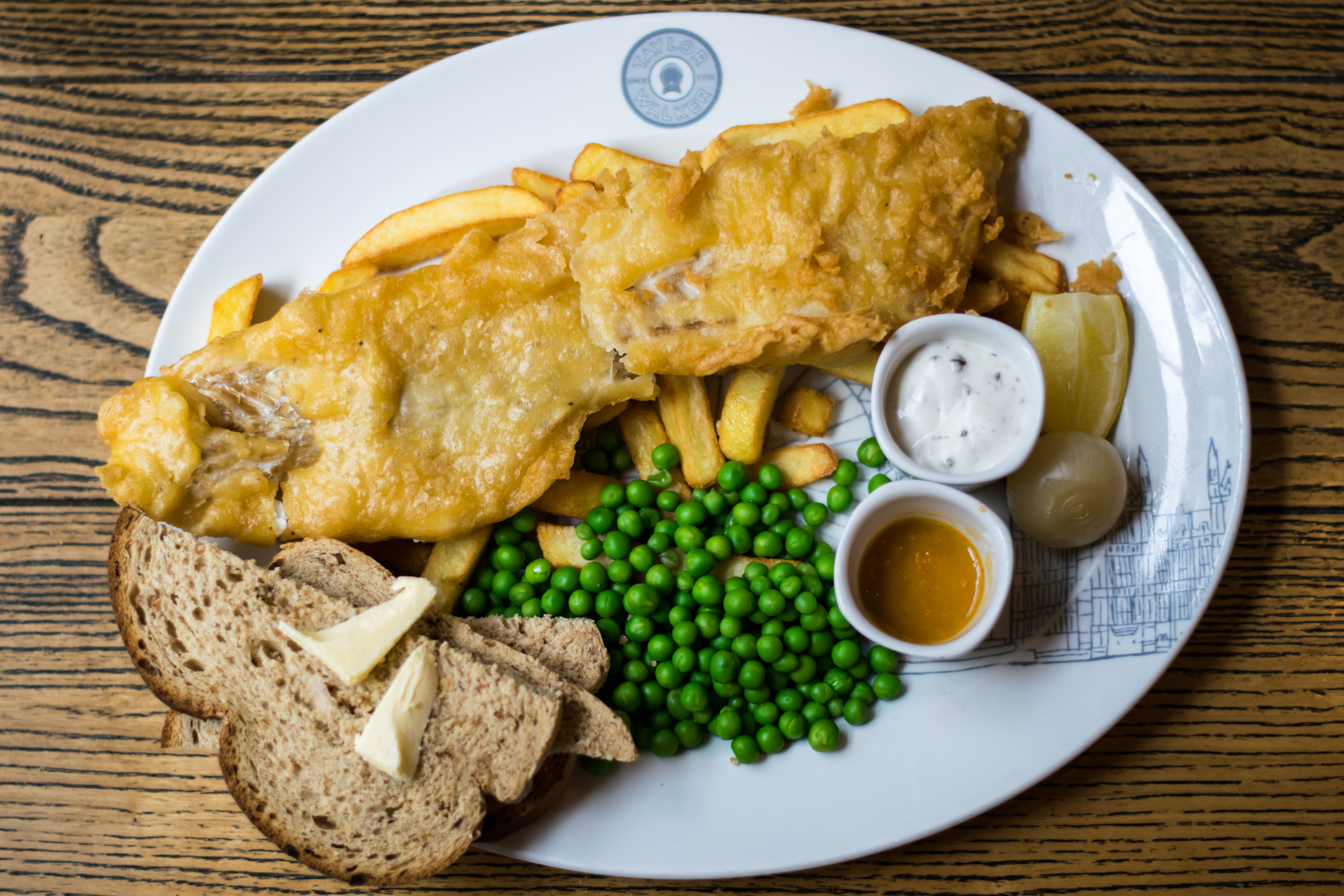 A plate of fish and chips in a pub in London, United Kingdom.